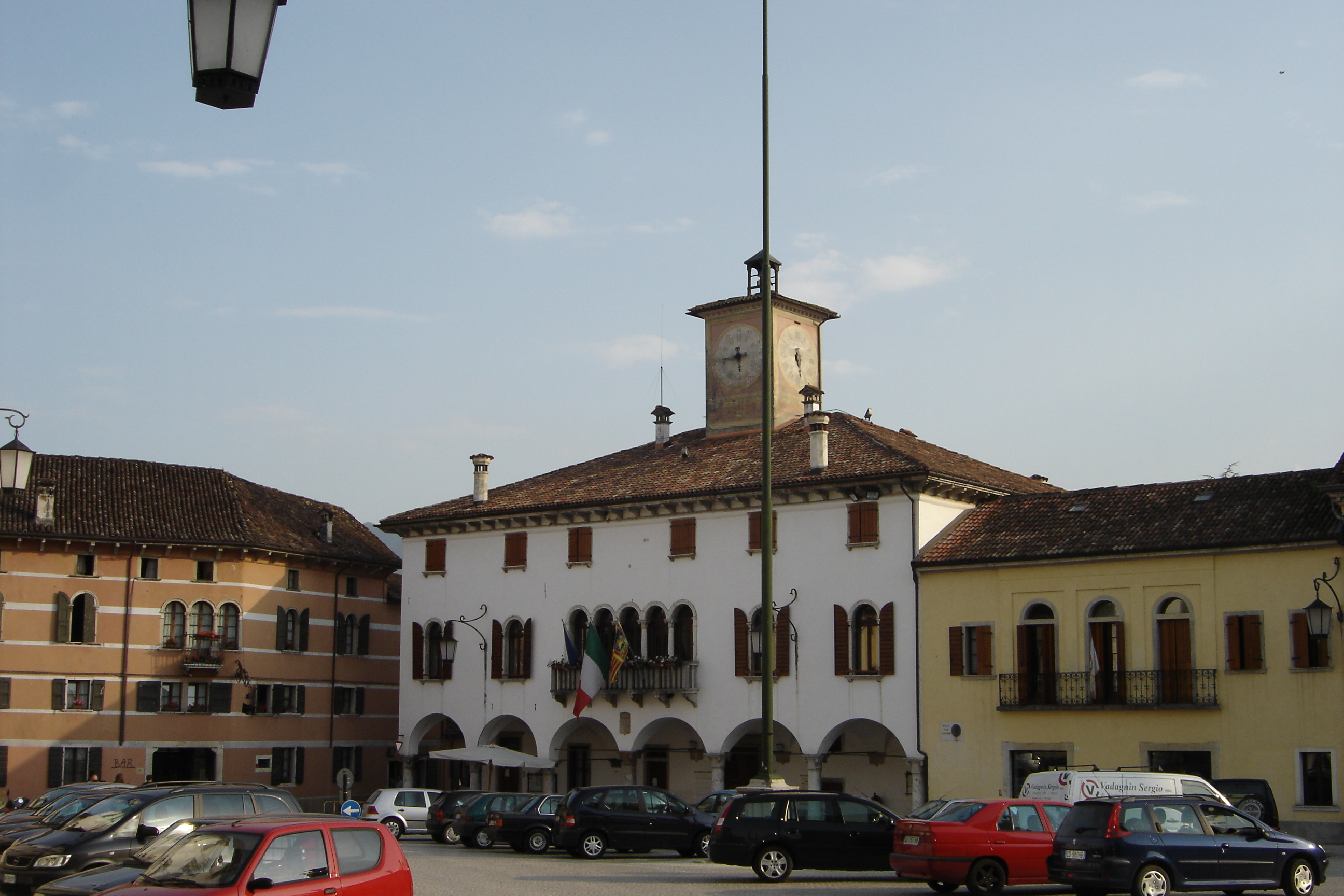 Square of Mel